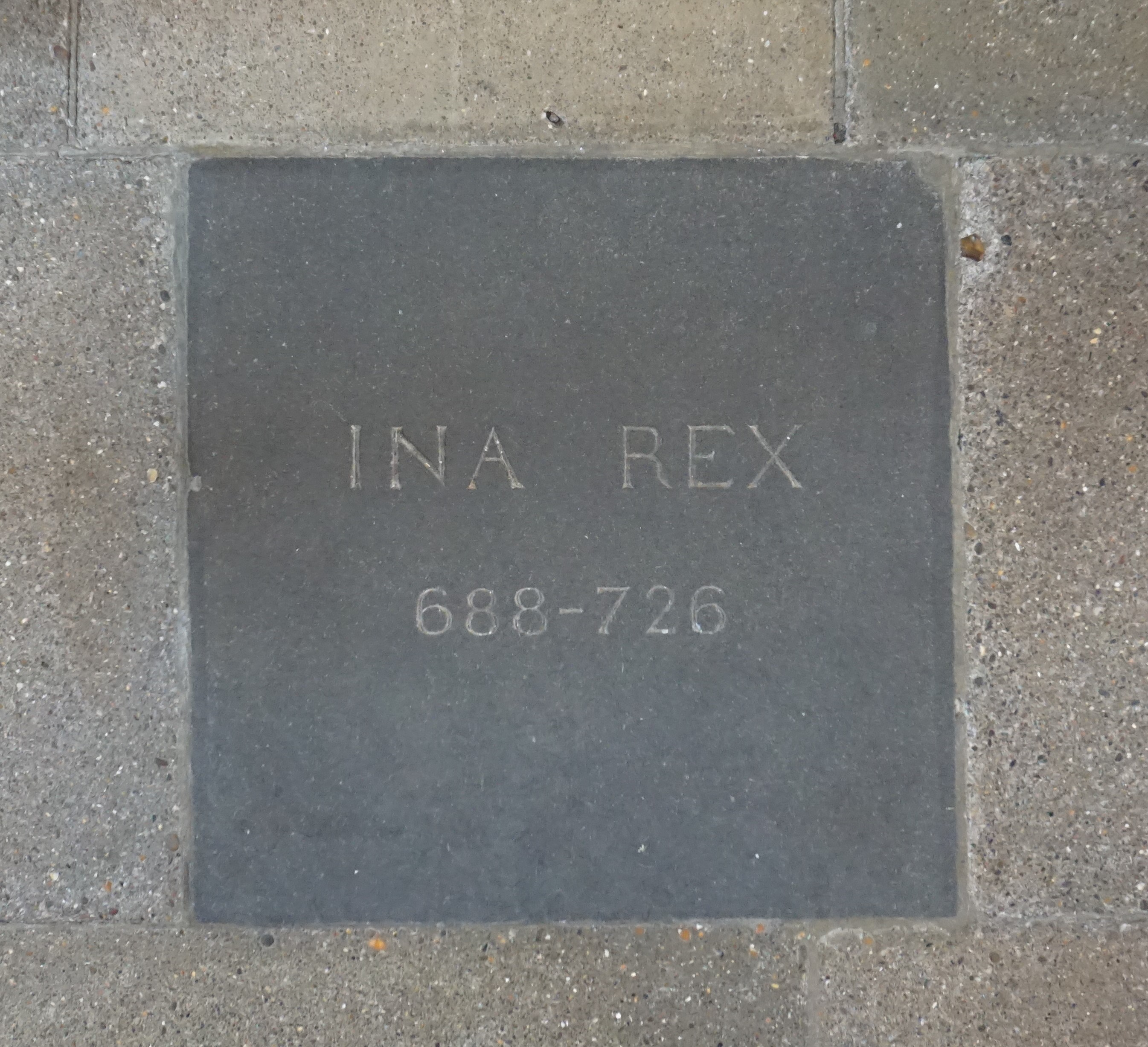 King Ine's commemoration stone in set in the floor of Wells Cathedral where the centre of the nave meets the crossing.